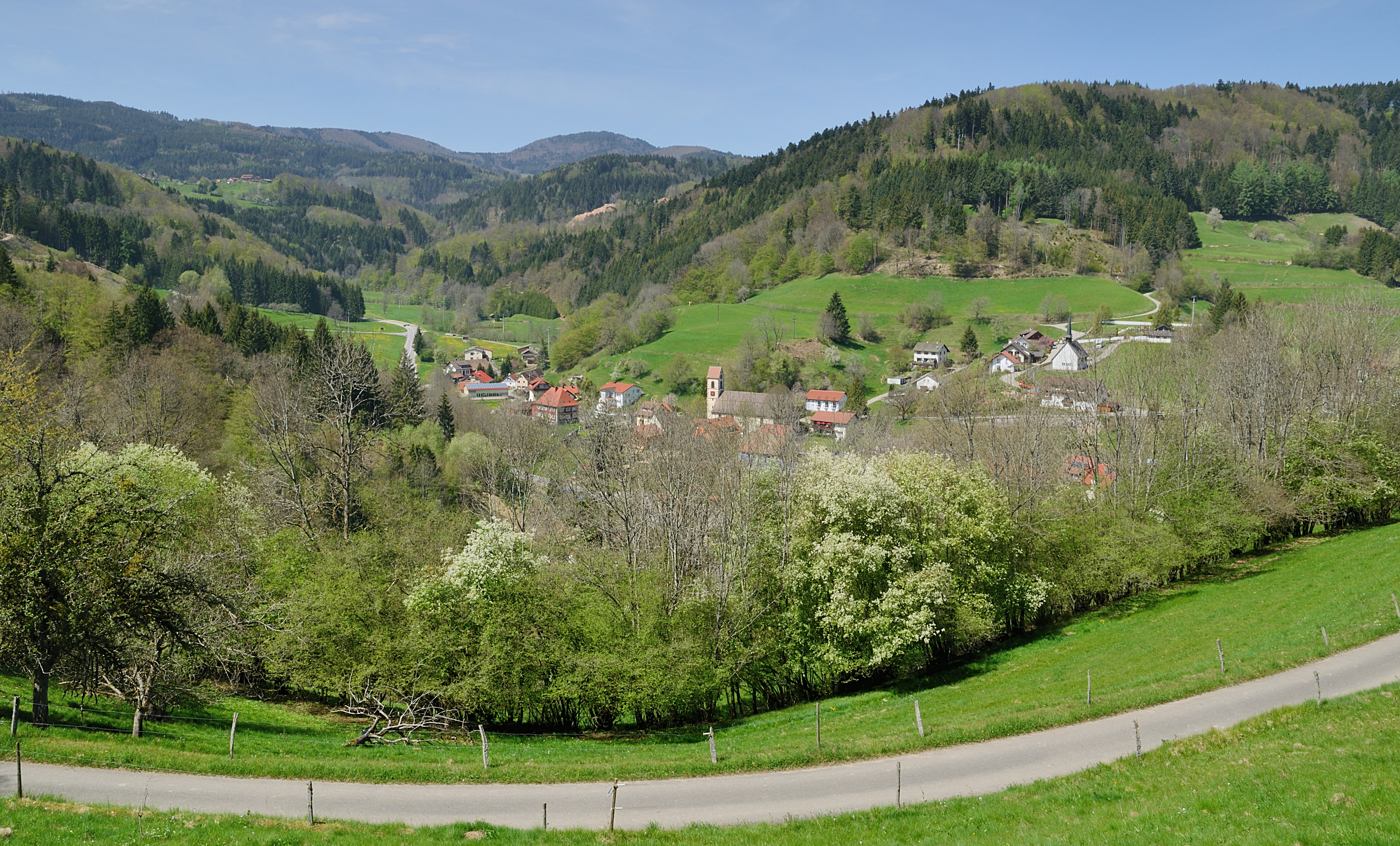 Tegernau